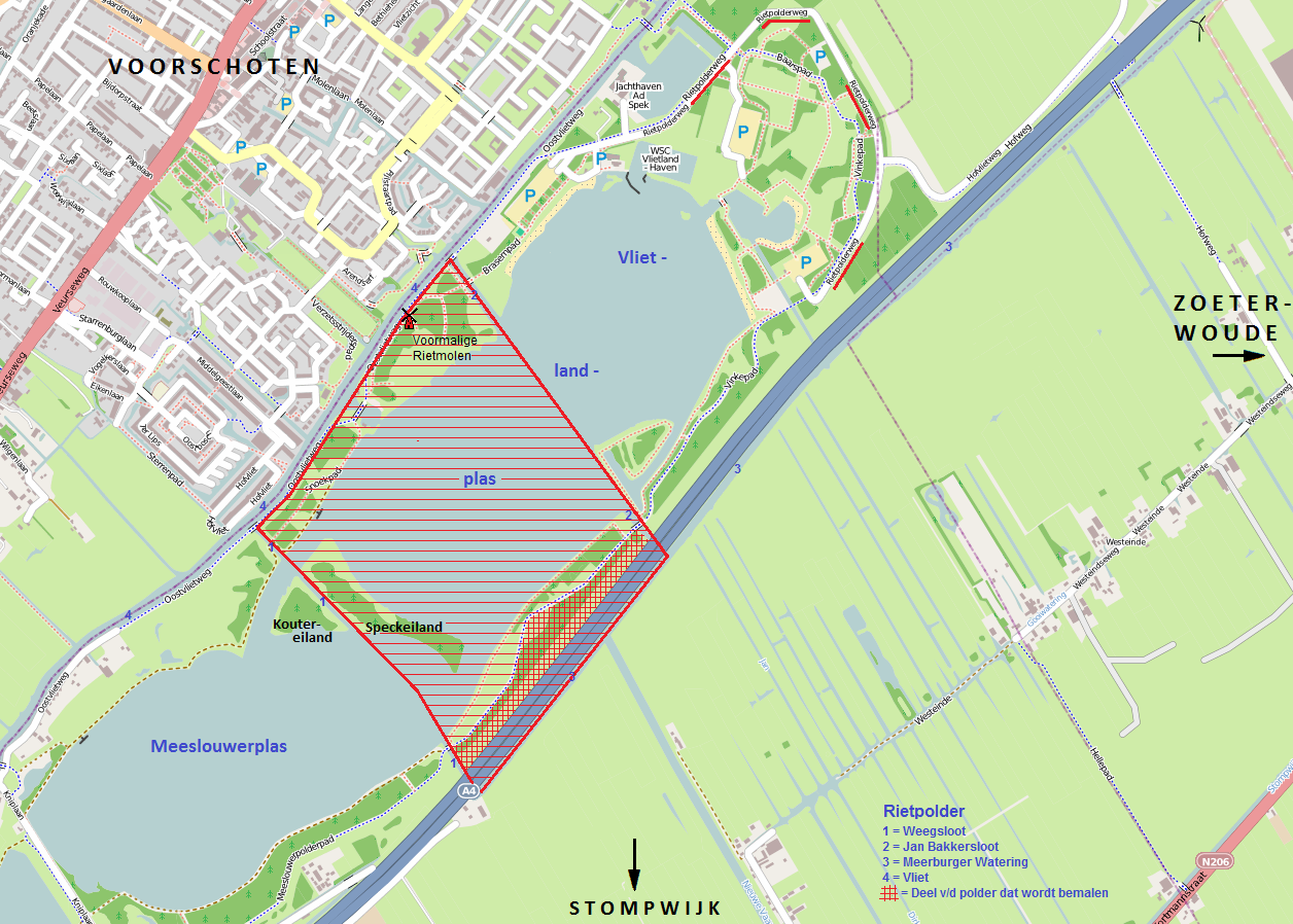 Location of the former Riet Polder (shaded red) on the river Vliet in the municipality of Leidschendam-Voorburg, opposite the town of Voorschoten (Province of South Holland, Netherlands). Situation shown as of November 2011. Large parts of the polder have been excavated for sand and now form a deep quarry pond. Indicated are the location of the former windmill, the part that is still being drained, and the remains of the two ditches ('sloot') that once formed the boundaries of the polder: the Jan Bakkersloot and the Weegsloot.